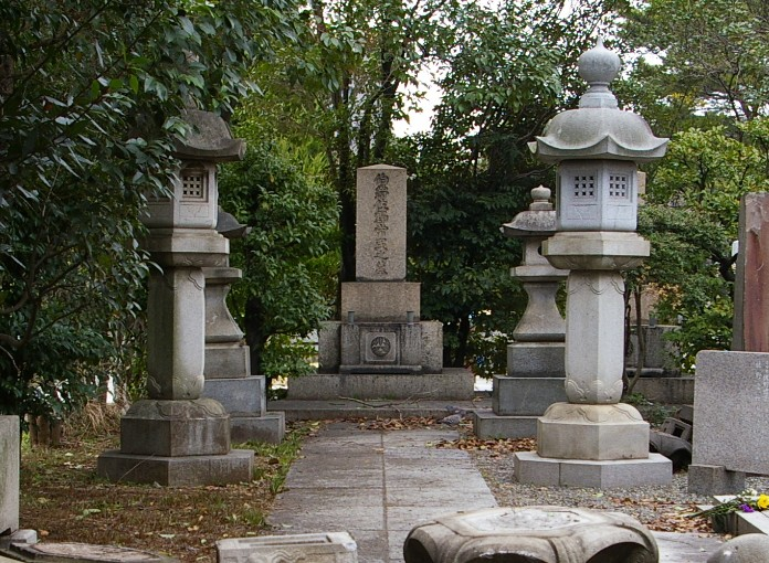 Gravestone of Sano Tsunetami. taken by me.